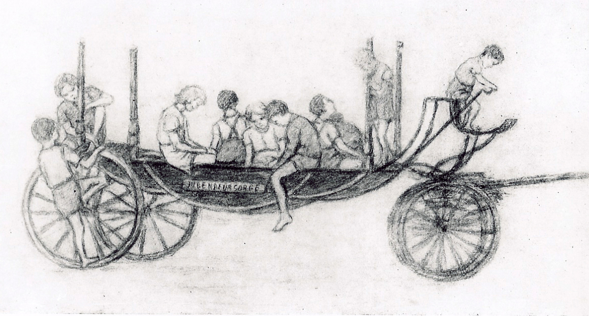 Artwork from the Theresienstadt ghetto